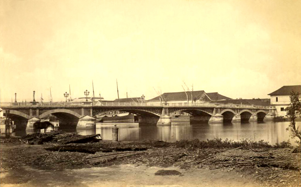 The Puente de España was a bridge that spanned the Pasig River in Manila. Originally called Puente Grande, the bridge was built in 1630. It was renovated in 1814 and after the 1863 earthquake after which it was renamed Puente de España. The bridge was destroyed by flood in 1914.